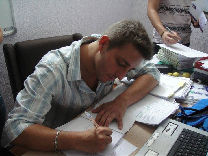 Eliseu autografando uma de suas publicações.